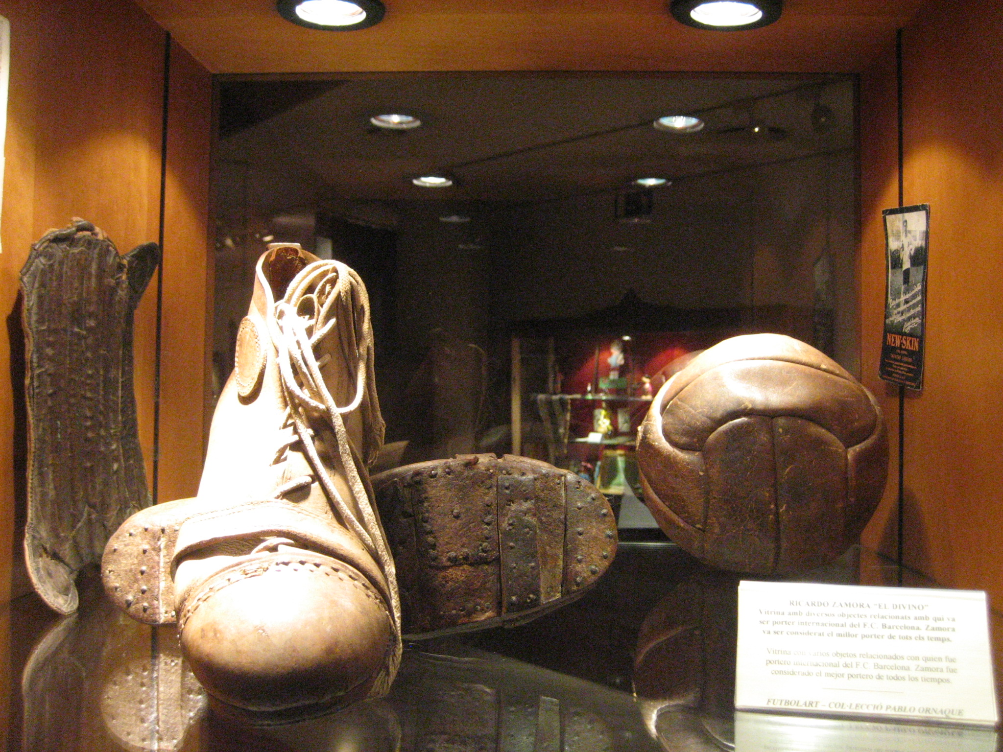 Football kit (footwear, shin pads and ball) which belong to spaish goalkeeper Ricardo Zamora.